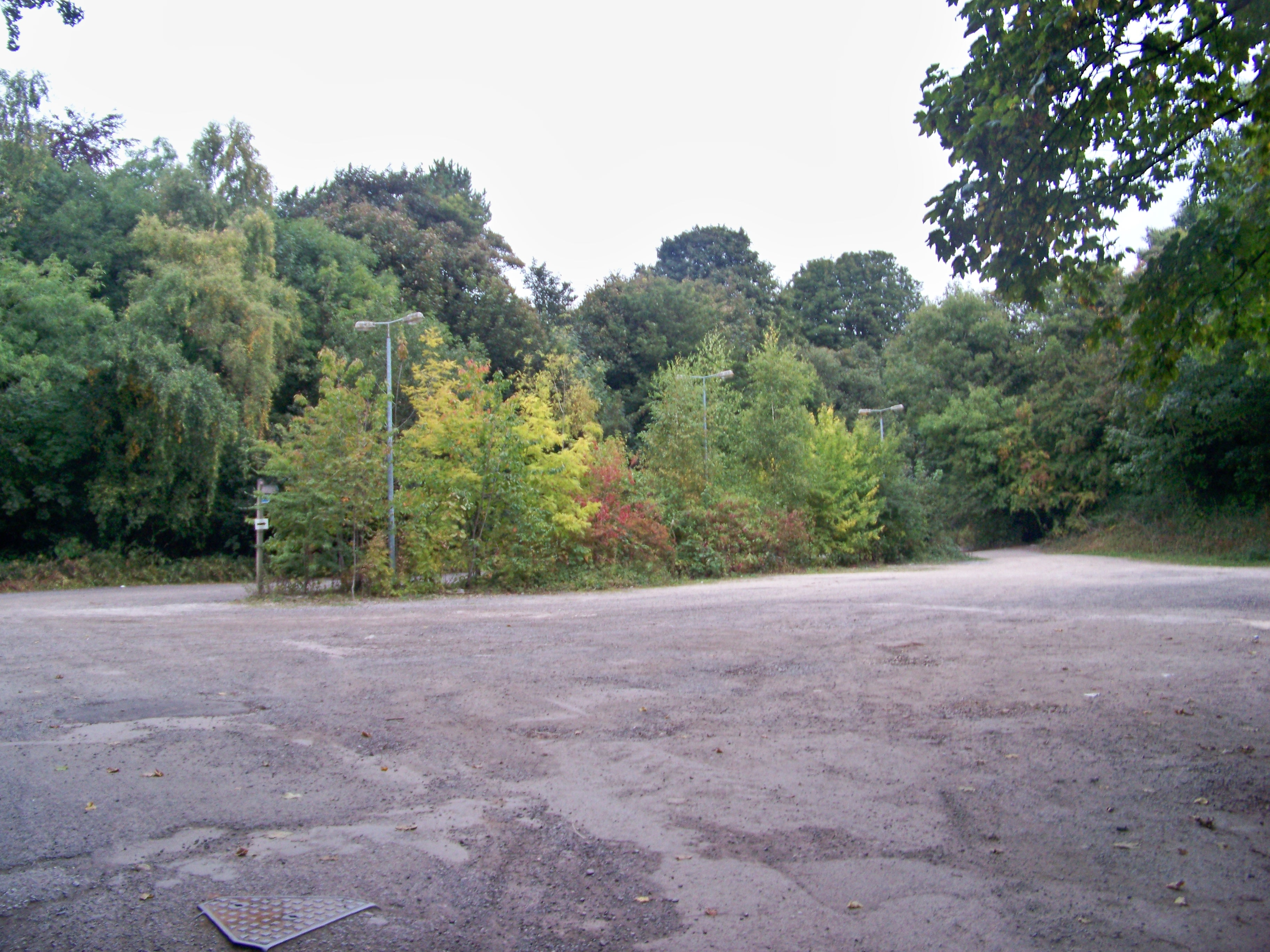 The site of the former Wetherby railway station (Linton Road site) taken on the evening of Saturday the 19th September 2009.